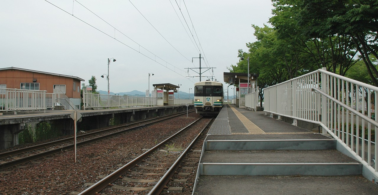 Photograph of Niida Station, Abukuma Express Line, Fukushima, Japan.